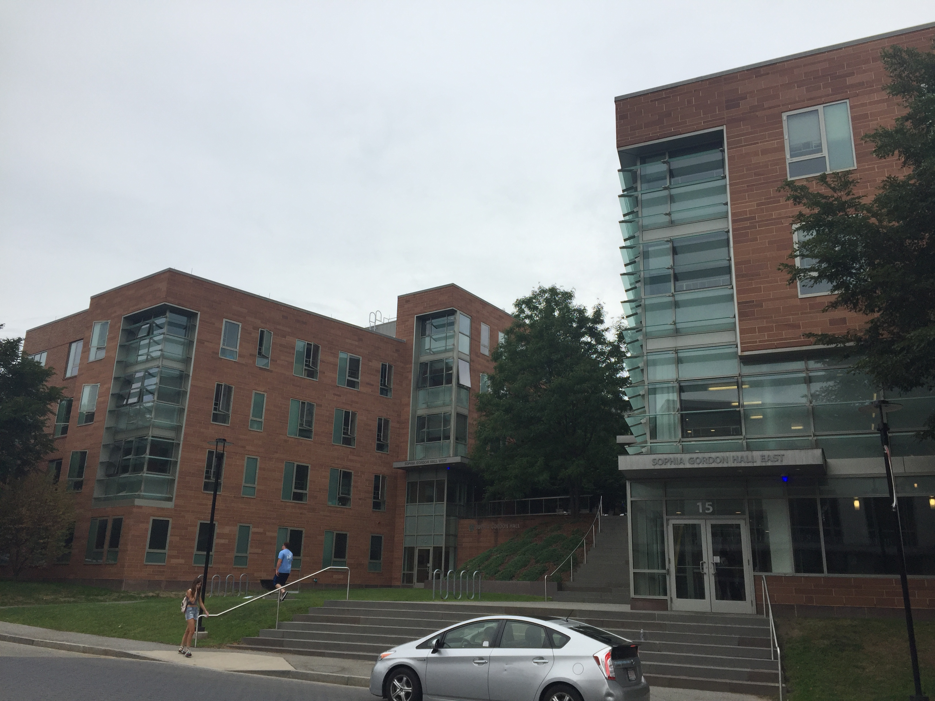 Sophia Gordon Hall (SoGo) in Tufts University